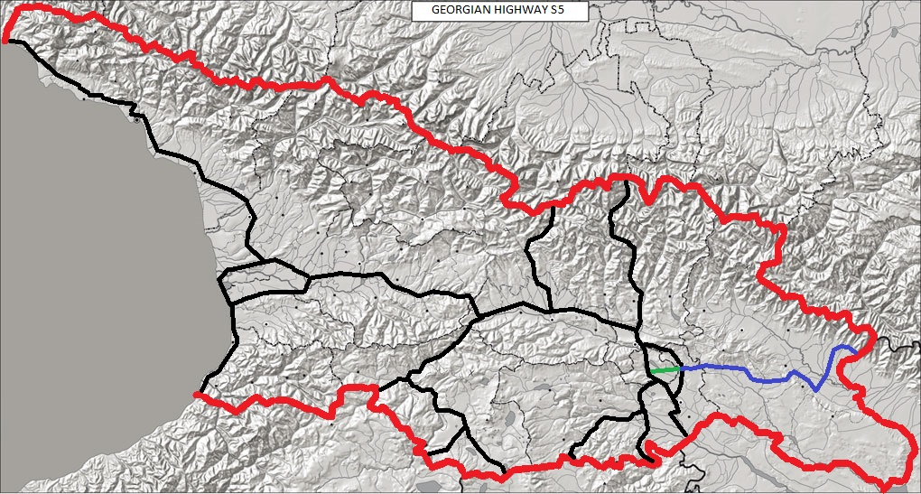 This is Georgian Highway S5 graphic map. green color is highway with four lines and blue is highway with two lines...